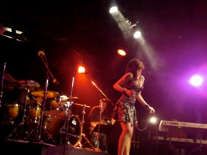 Picture of India actress Shruti Haasan, taken from her concert at the Banyan (2006).